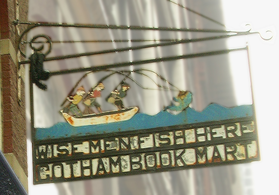 Photo of the iconic sign created by John Held, Jr. for the Gotham Book Mart.